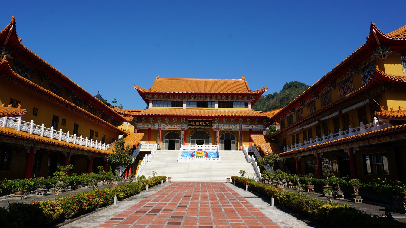 Huguo Qingliang Temple